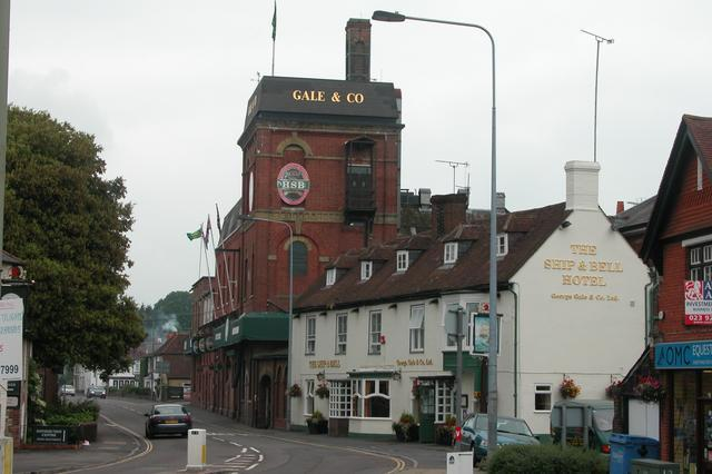 Gale's Brewery, Horndean, Hampshire: a tower brewery founded in 1847 and closed by Fuller's in 2006